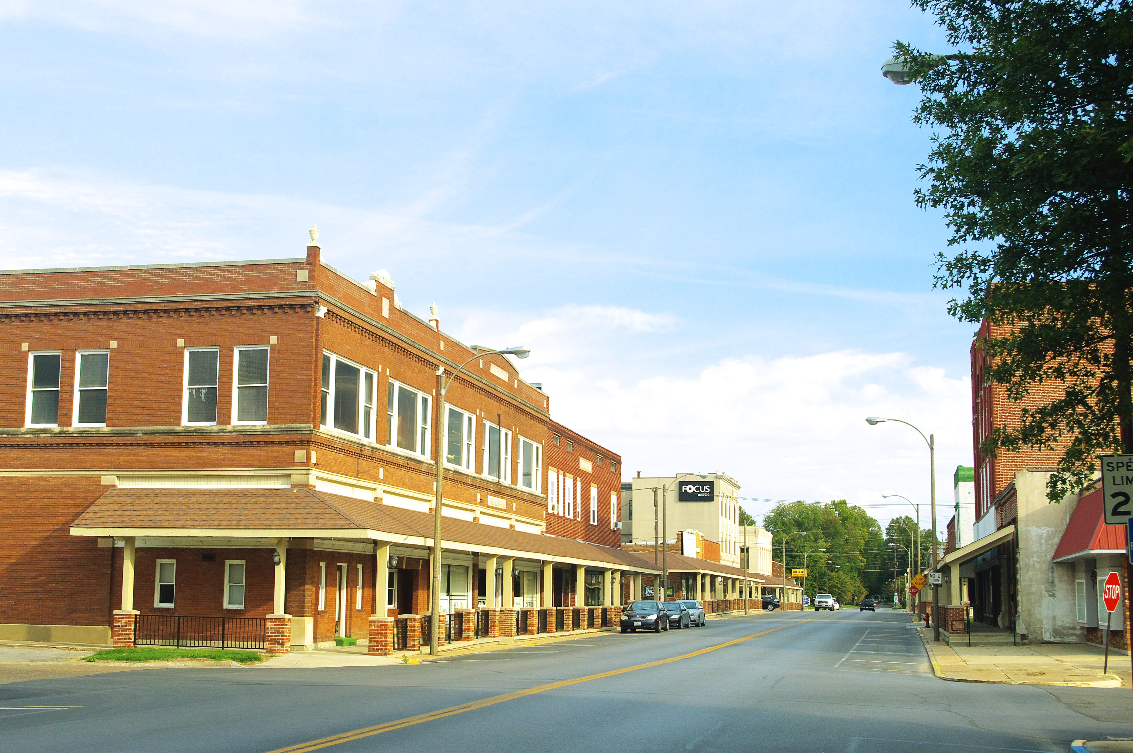 Buildings along Main Street in Charleston, Missouri, United States.